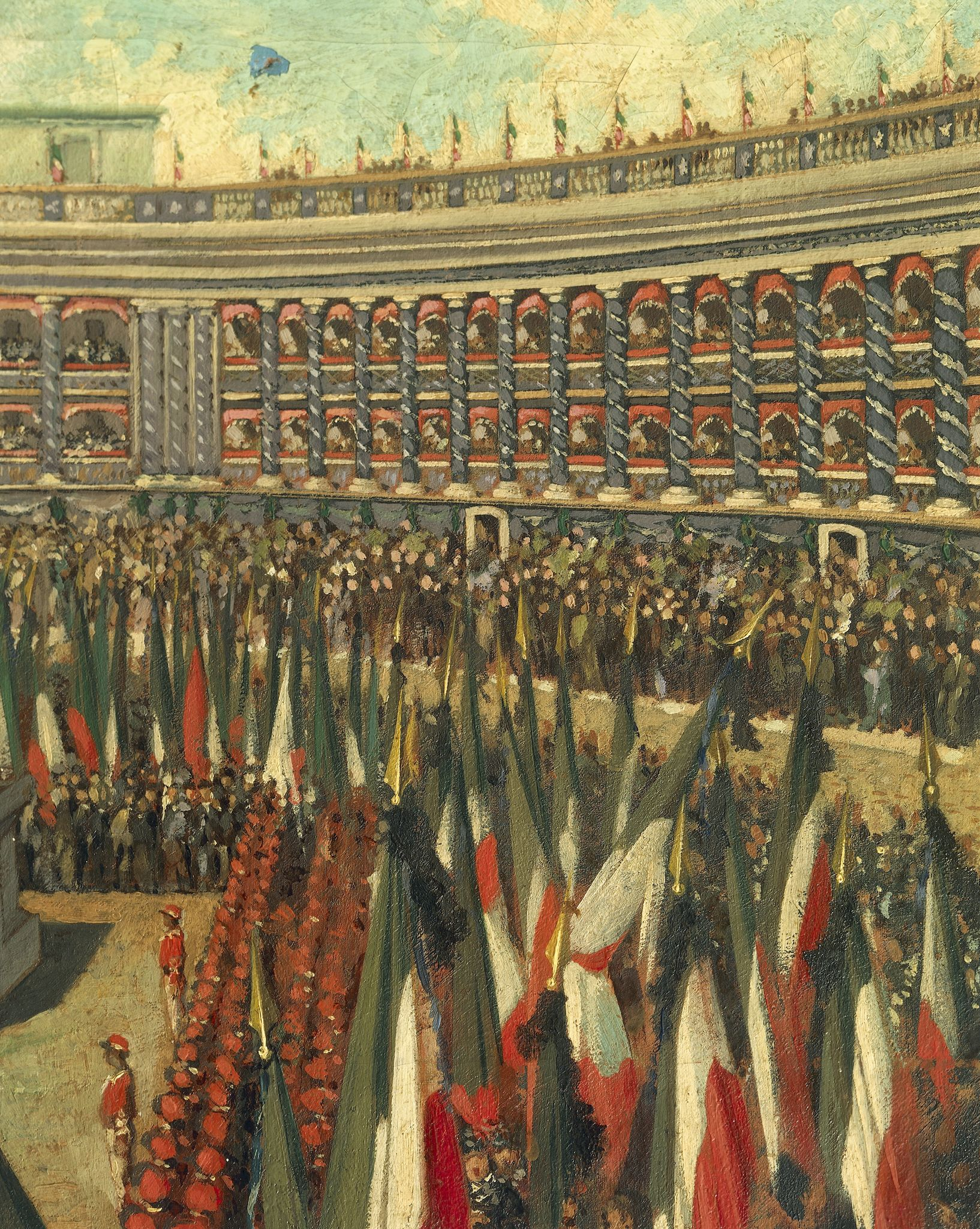 Title: Celebrations in honor of Giuseppe Garibaldi... Caption: ITALY - CIRCA 2002: Celebrations in honor of Giuseppe Garibaldi in Sferisterio arena in Macerata. Detail. Italian Unification (Risorgimento), Italy, 19th century. (Photo by DeAgostini/Getty Images) Date created: 01 Jan 2002 Editorial image #: 150617910 Restrictions: Contact your local office for all commercial or promotional uses. Licence type: Rights-managed Photographer: DEA / A. DAGLI ORTI/Contributor Collection: De Agostini Credit: De Agostini/Getty Images Max file size/dimensions/dpi: 51.5 MB - 3790 x 4750 px (32.09 x 40.22 cm) - 300 dpi Download file size may vary. Source: De Agostini Editorial Release information: Not released. More information Bar code: 11245069 Object name: 11245069 Keywords: Art And Craft, People, Conformity, History, Abundance, Celebratory Event, Architecture, Vertical, Outdoors, Crowd, Italy, Stadium, Traditionally Italian, Day, Repetition, Adult, Italian Flag, Politics, Art And Craft, Illustration and Painting, Celebration, Men, Women, Building Exterior, Historical Clothing, 19th Century Style, Honour, Giuseppe Garibaldi, Arts Culture and Entertainment. Find similar images Availability: Availability for this image cannot be guaranteed until time of purchase.